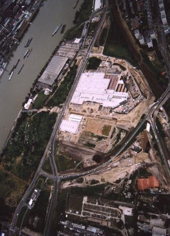 Albertfalva - Budapest, Hungary, aerialphotgraphy